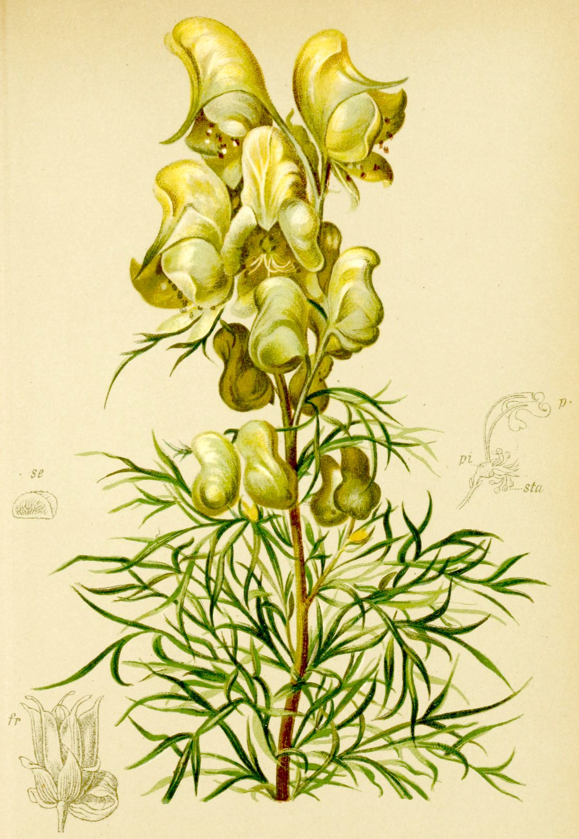 Aconitum anthora